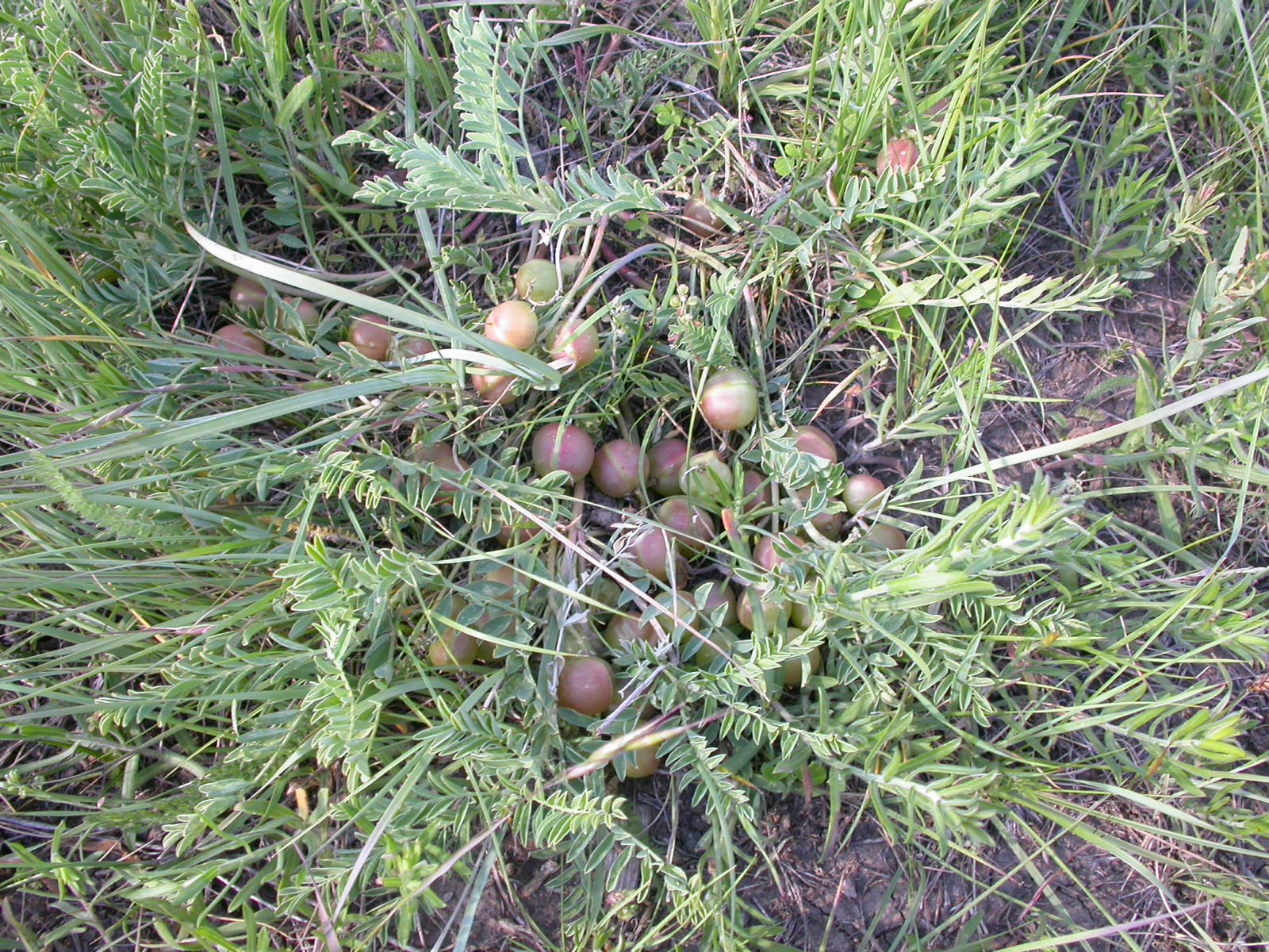 The plum-like fruits nested among pinnate leaves are very distinctive of this species.